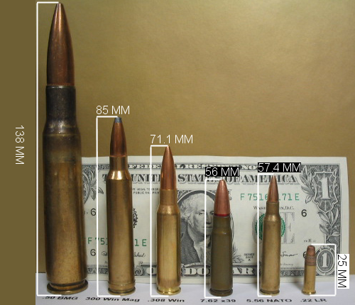 Rifle cartridges - L to R: .50 BMG, 300 Win Mag, .308 Winchester, 7.62 Russian Short, 5.56 NATO, .22 LR Metric Scale added to provide additional information.